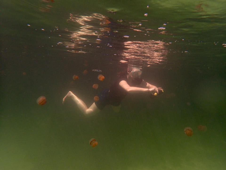 Snorkeling in the stingless jellyfish lake